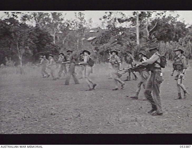 DONADABU, SOGERI VALLEY, NEW GUINEA. 1943-06-28. BREN GUNNERS OF "A" COMPANY, 9TH AUSTRALIAN INFANTRY BATTALION, FIRING FROM THE HIP WHILE ADVANCING ON THE TARGET, DURING A PRACTICE SHOOT. Australian War Memorial, copyright expired, public domain. Image 053387.